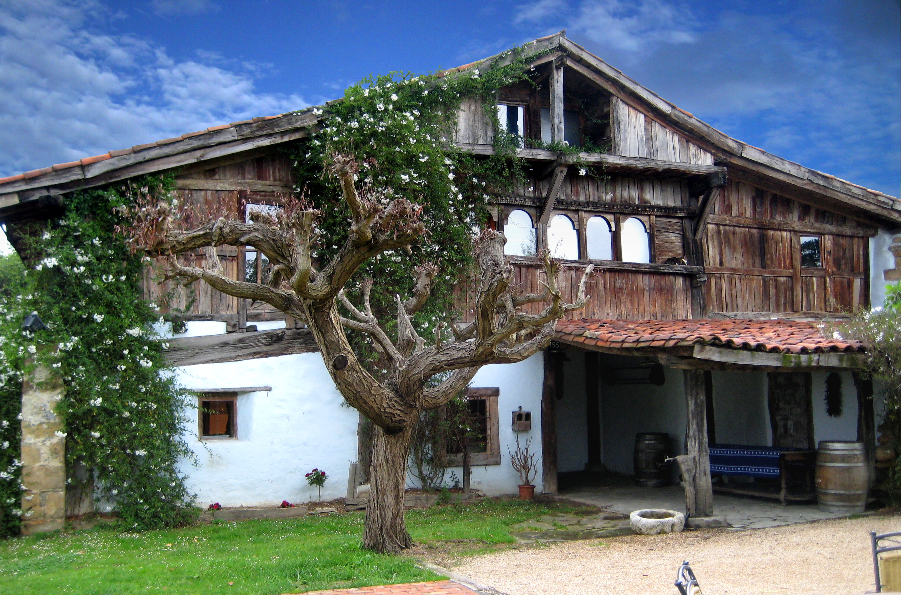 Main façade of the Bengoetxe Farmahouse (currently Aspaldiko Restaurant, in Lujua - Loiu.